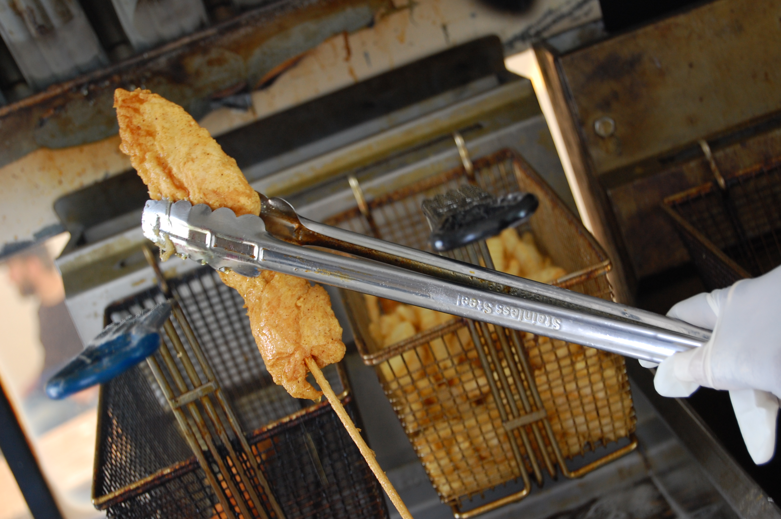 A piece of hot chicken on a stick is removed from the fryer at Bolton's Spicy Chicken & Fish in Nashville, Tennessee.